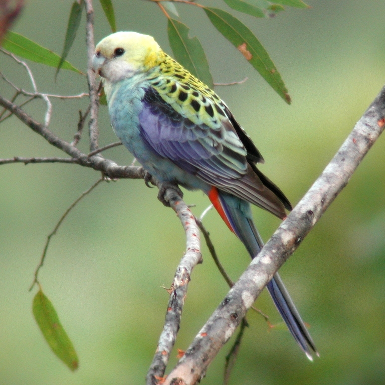 Pale-headed Rosella (Platycercus adscitus) Kobble Creek, SE Queensland, Australia (ssp palliceps)